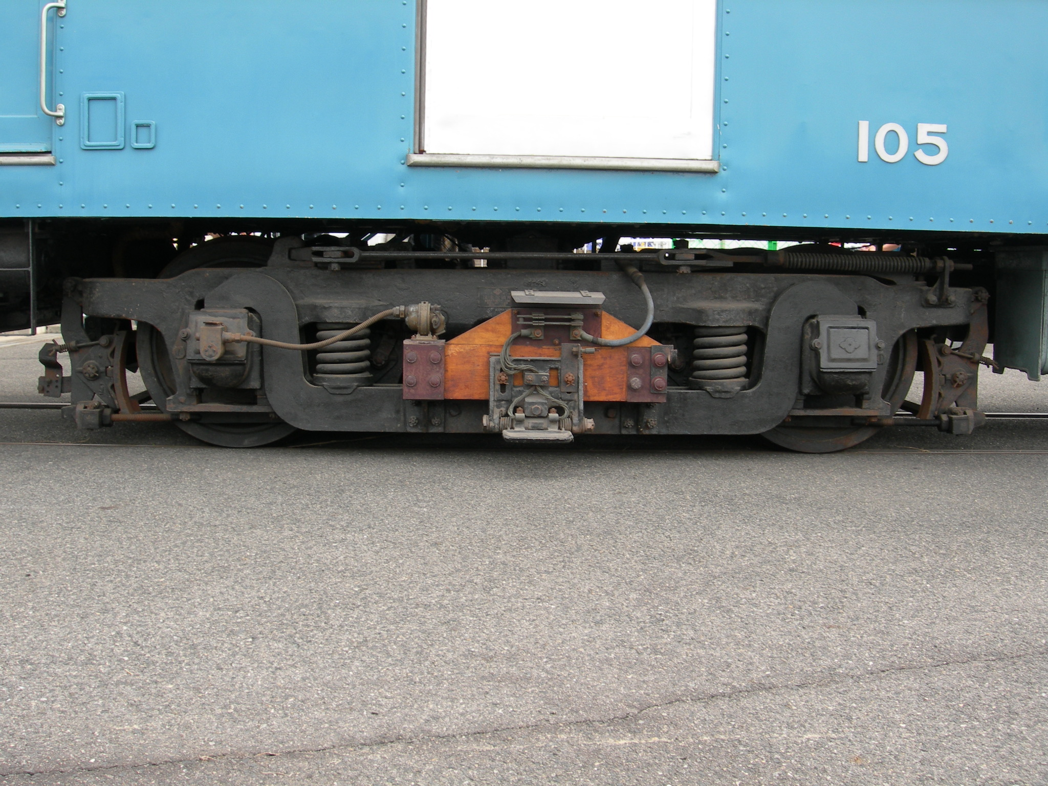 Bogie Type KS-63L, Osaka Subway Type 100